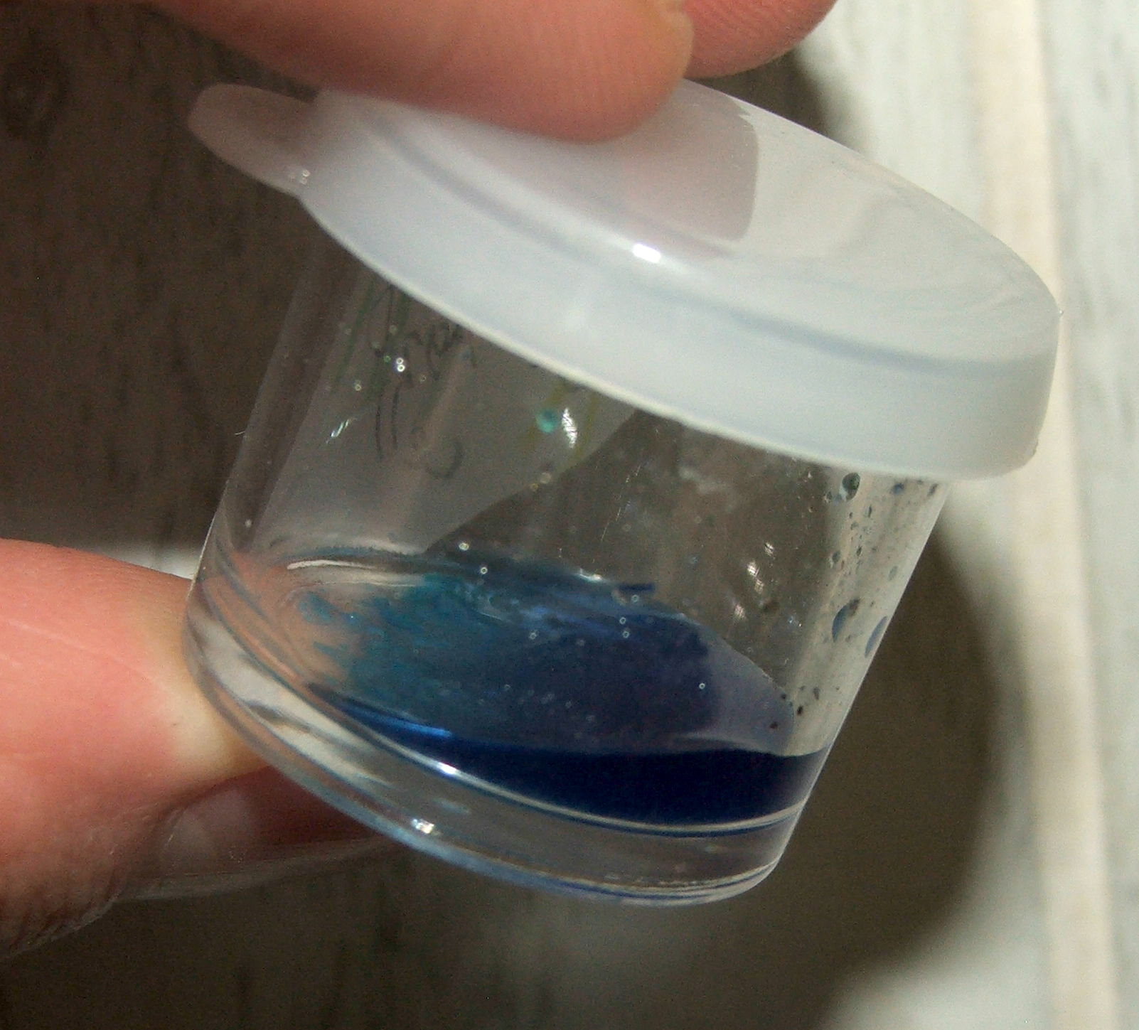 A solution of tetramminecopper sulfate in a container.